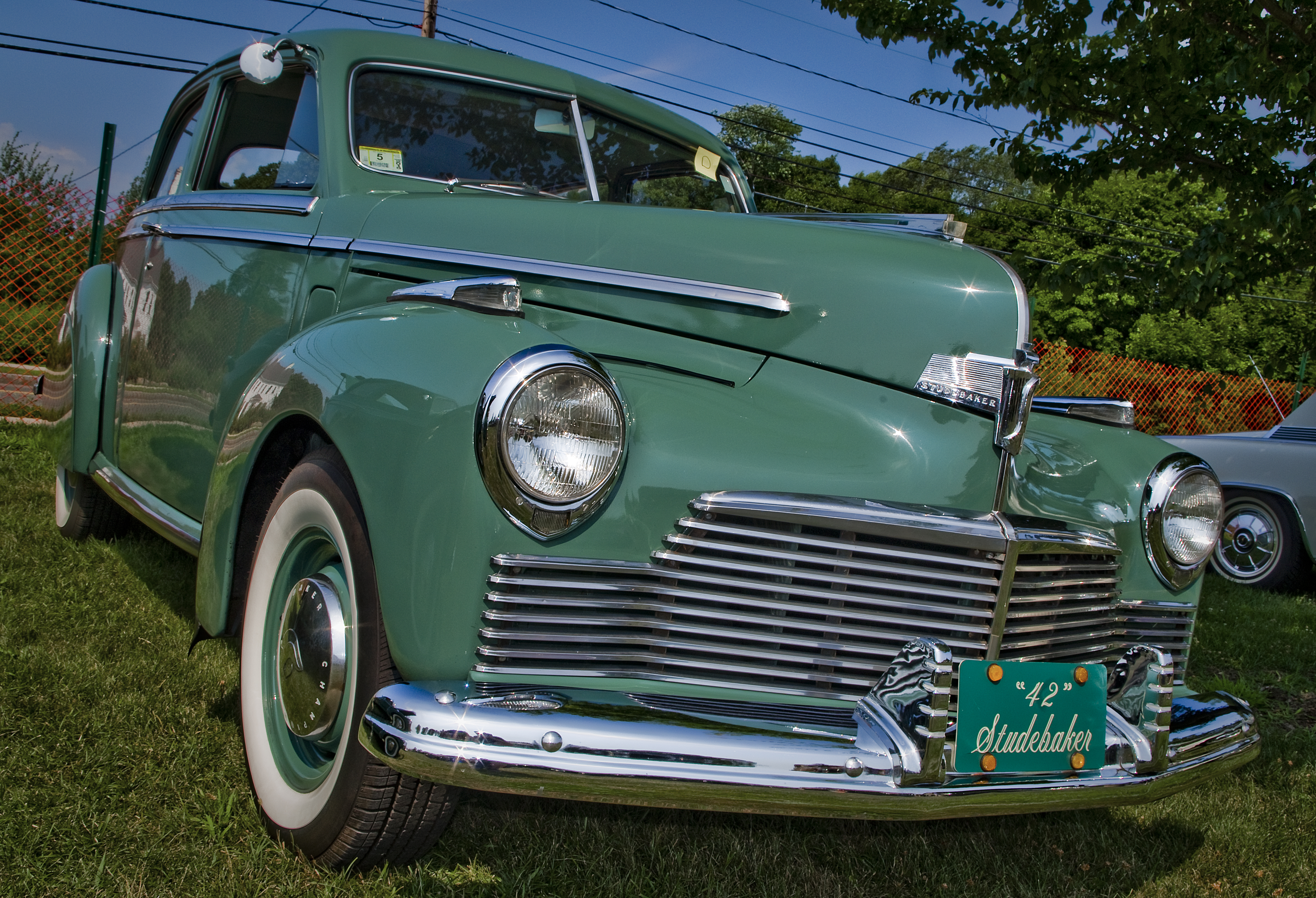 1942 Studebaker Champion